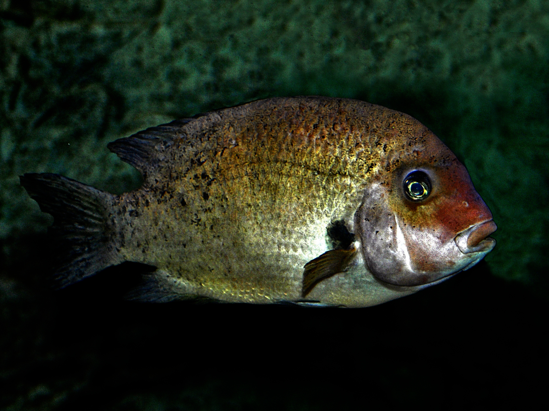 Paretroplus damii, on display at the Museo di Storia Naturale e del Territorio, Calci (Province Pisa), Italy